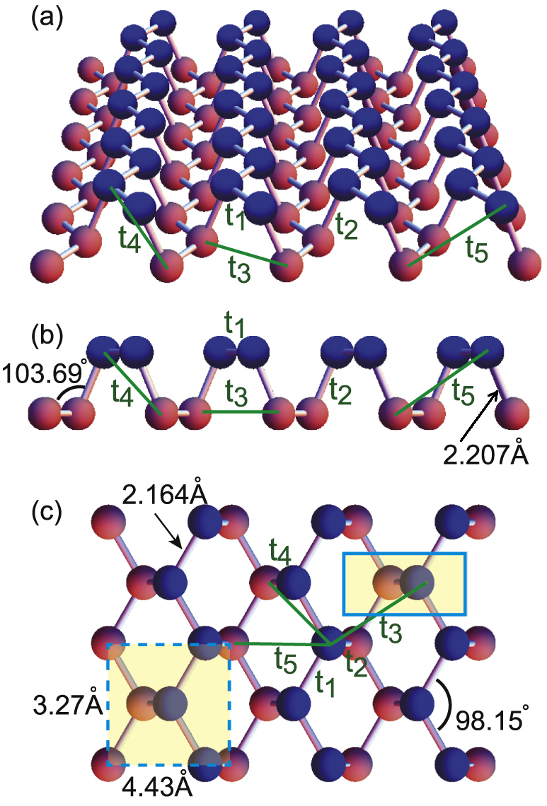 Phosphorene structure: (a) titled view, (b) side view, (c) top view. The left edge is zigzag while the right edge is beard as a nanoribbon. Red (blue) balls represent phosphorus atoms in the upper (lower) layer. A dotted (solid) rectangular denote the unit cell of the four-band (two-band) model. The parameters of the unit cell length and angles of bonds are taken from [1]